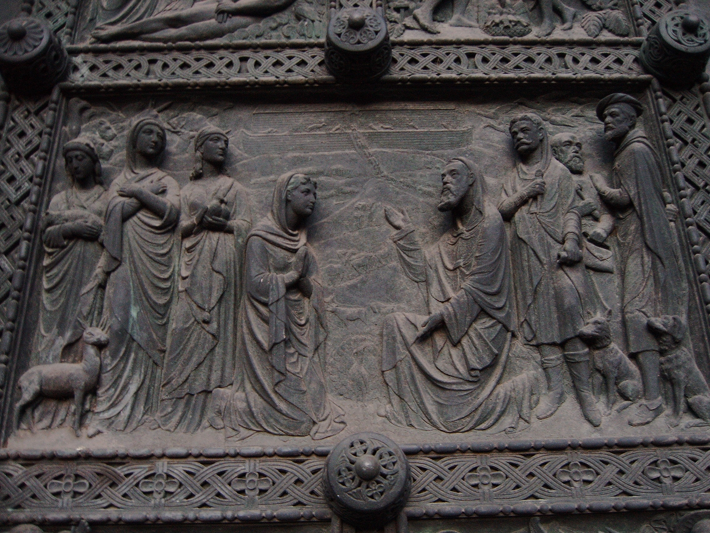 ST. Petri Dom, Left Door Images DownTown - Bremen City in Germany.